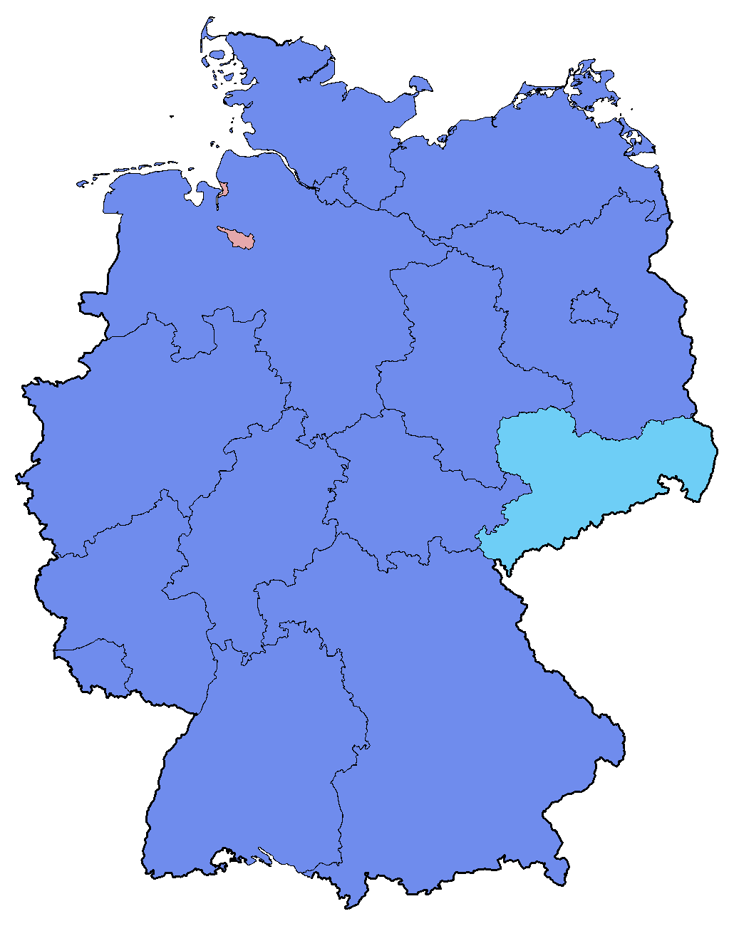 Electoral map showing the party list vote results (Zweitstimmen) of the 2017 Bundestag (German parliament) elections by state. Light blue denotes states where the CDU/CSU had the plurality of the votes; cyan denotes states where the AfD had the plurality of the votes, and pink denotes states where the SPD had the plurality of the votes.